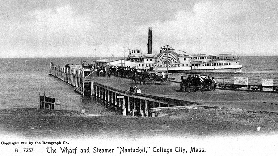 Postcard: The Wharf and Steamer "Nantucket," Cottage City, Mass.